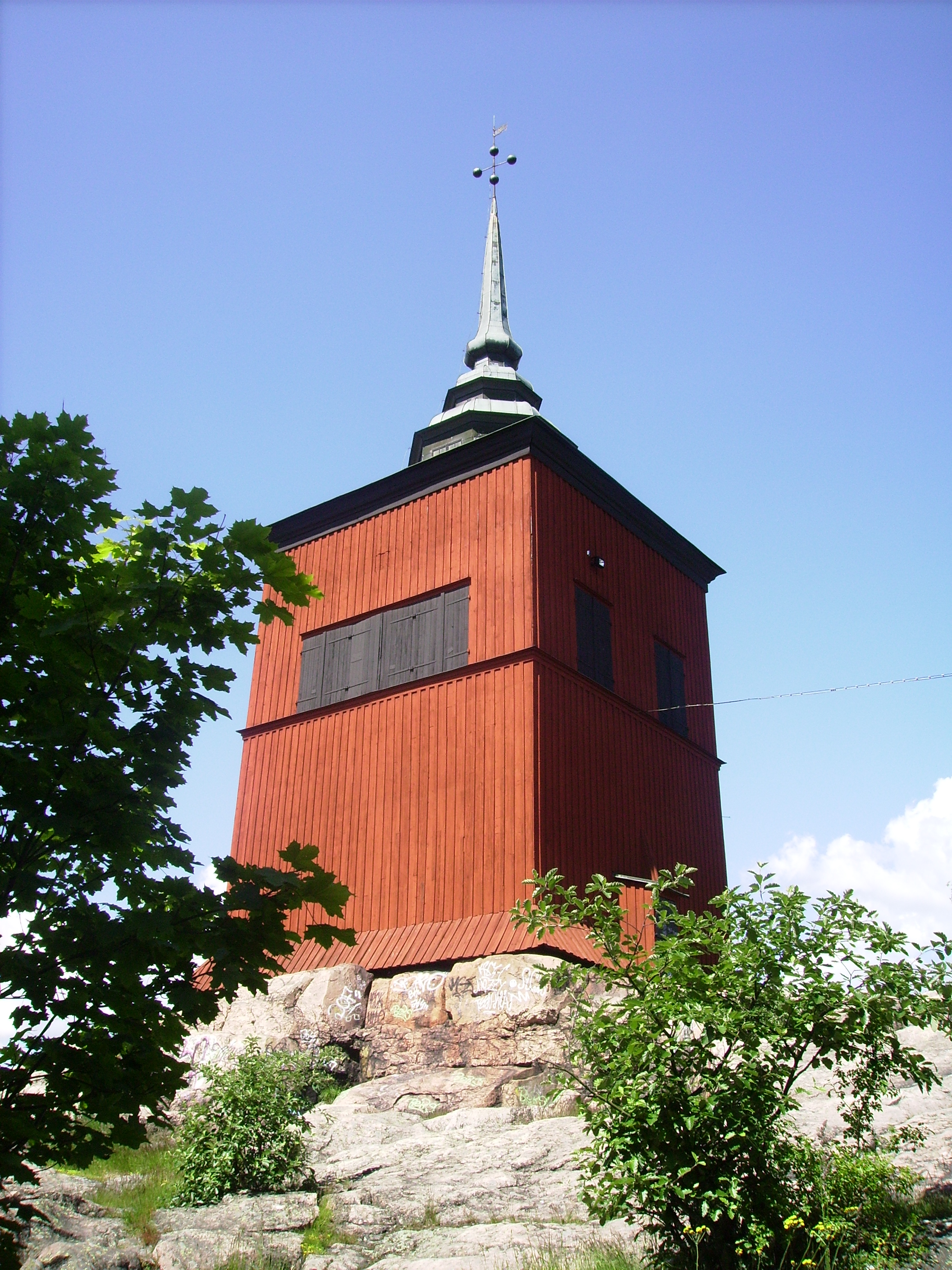 Picture of buildning at Borgareberget in Nyköping